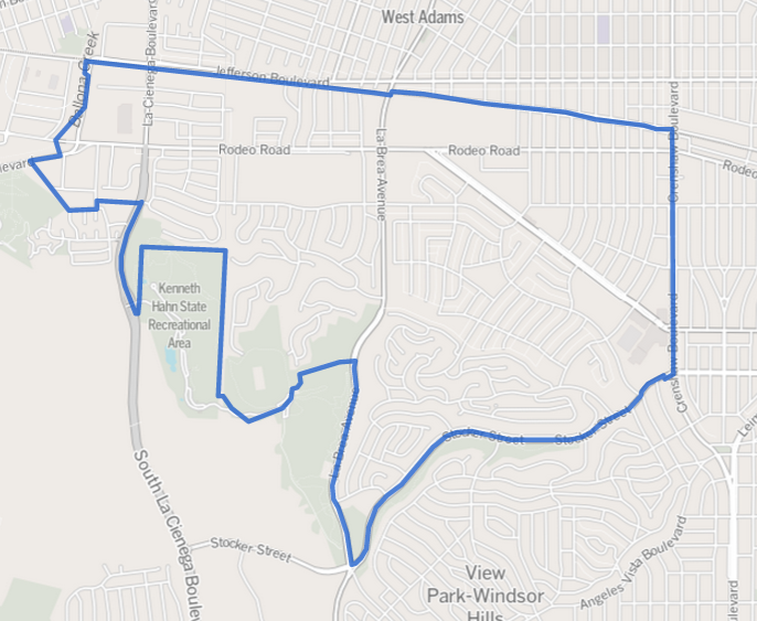 Map of the Baldwin Hills-Crenshaw neighborhood of South Los Angeles, within the City of Los Angeles, California.